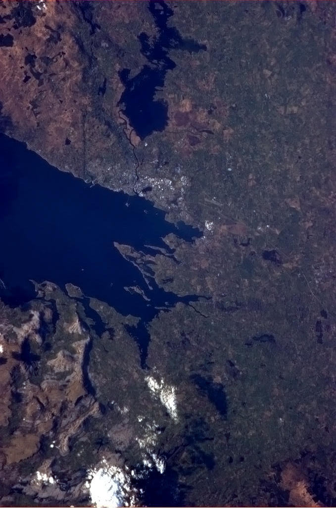 "Galway, Ireland, in the afternoon sun." – Caption by astronaut Chris Hadfield on board the International Space Station. This is one of a set of eight pictures of Ireland taken from earth orbit that were posted on the internet by Hadfield to celebrate Saint Patrick's Day in 2013. This view of Galway Bay on the west coast of Ireland shows the River Corrib flowing south from Lough Corrib at the top of the picture, and into the bay at the city of Galway. The brown land of Connemara is at the top left, with the Burren hills below the bay in County Clare, at bottom left. The original image has been rotated 90 degrees to the left to present a more familiar orientation.